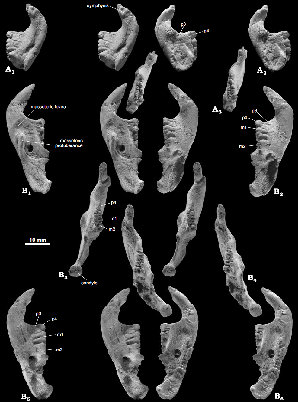 Catopsbaatar catopsaloides, Gobi Desert, Mongolia, ?upper Campanian. A. Stereo−photographs of the partial left dentary of ZPAL MgM−I/80 from Hermiin Tsav II, in medial (A1), lateral (A2), and dorsal (A3) views. B. PM120/107, Hermiin Tsav I. Stereo−photographs of the left dentary in lateral view (B1), in medial view (B2) and in occlusal view (B3); stereo−photographs of the right dentary of the same specimen in dorsal (B4) medial (B5), and lateral (B6) views. Note large masseteric protuberance at the anterior end of the masseteric crest in B1, damaged but discernible in B6 and A2.